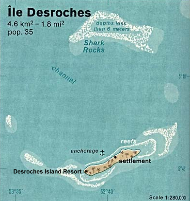 Map of Desroches Island (Atoll), Amirantes, Outer Islands of Seychelles